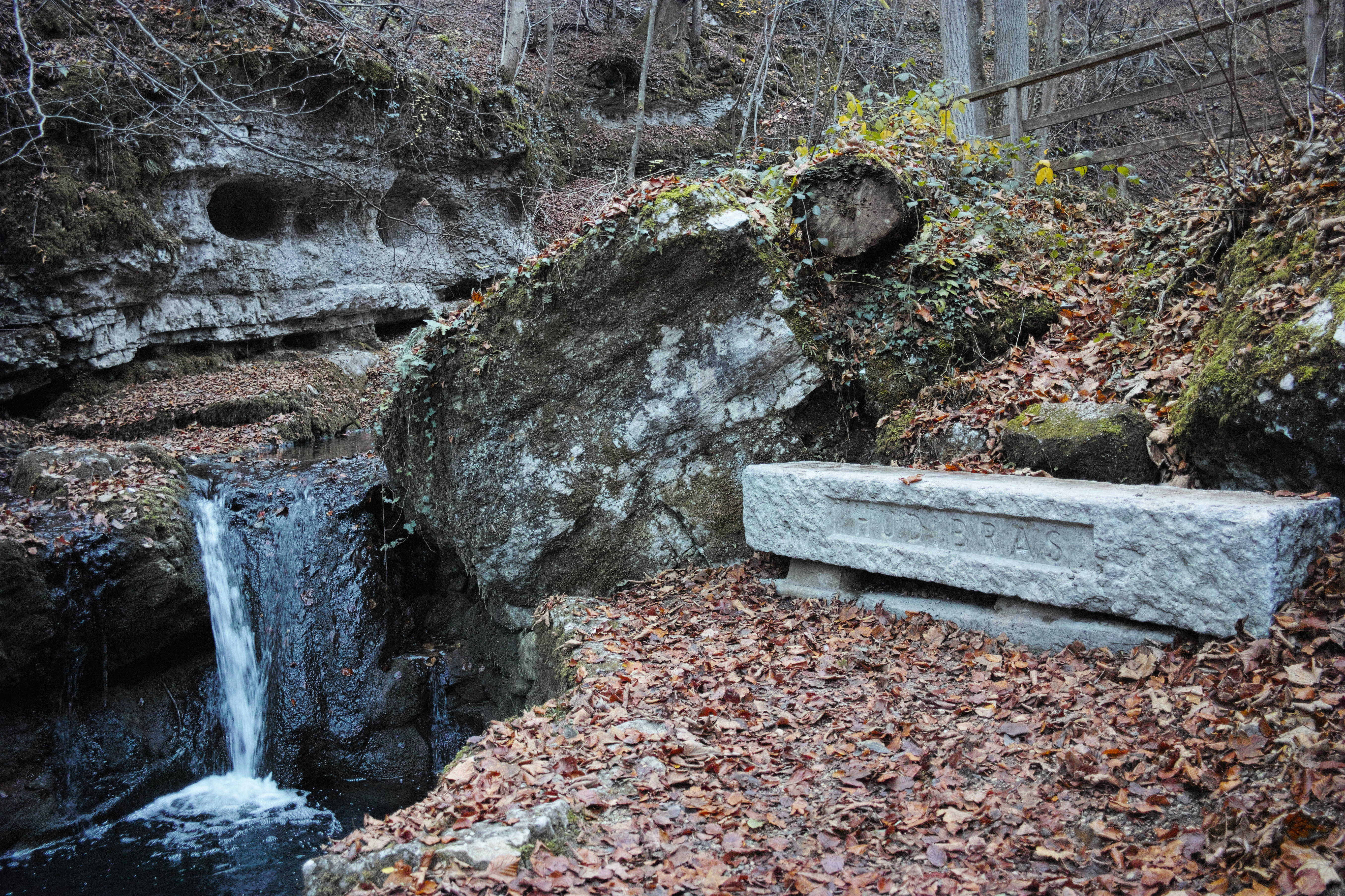 "Hudibras seat", erected in memory of Franz Josef Gassmann, in the Verena Gorge at Rüttenen near Solothurn, Switzerland.